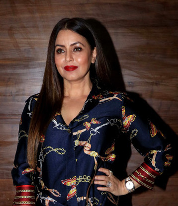 Mahima in 2018